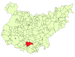 Fuente de Cantos, spanish municipality in the province of Badajoz, Extremadura.